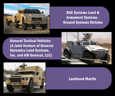 JLTV competitors and initial designs, updated since as of 2010, Lockheed Martin SI-Owego does not exist as an operating company, so Lockheed Martin is substituted.